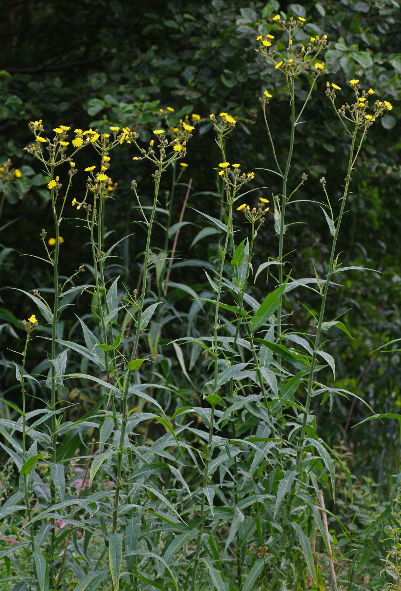 Plants of Sonchus palustris, about 2.5 to nearly 3 meters tall.